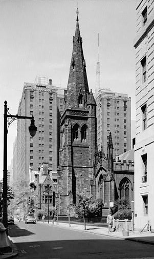 St. Mark's Episcopal Church — located at 1625 Locust Street in Center City Philadelphia, Pennsylvania. The Gothic Revival style church was designed by John Notman, and built in 1849. A designated National Historic Landmark, and on the National Register of Historic Places. Image courtesy of federal HABS—Historic American Buildings Survey in Pennsylvania project.